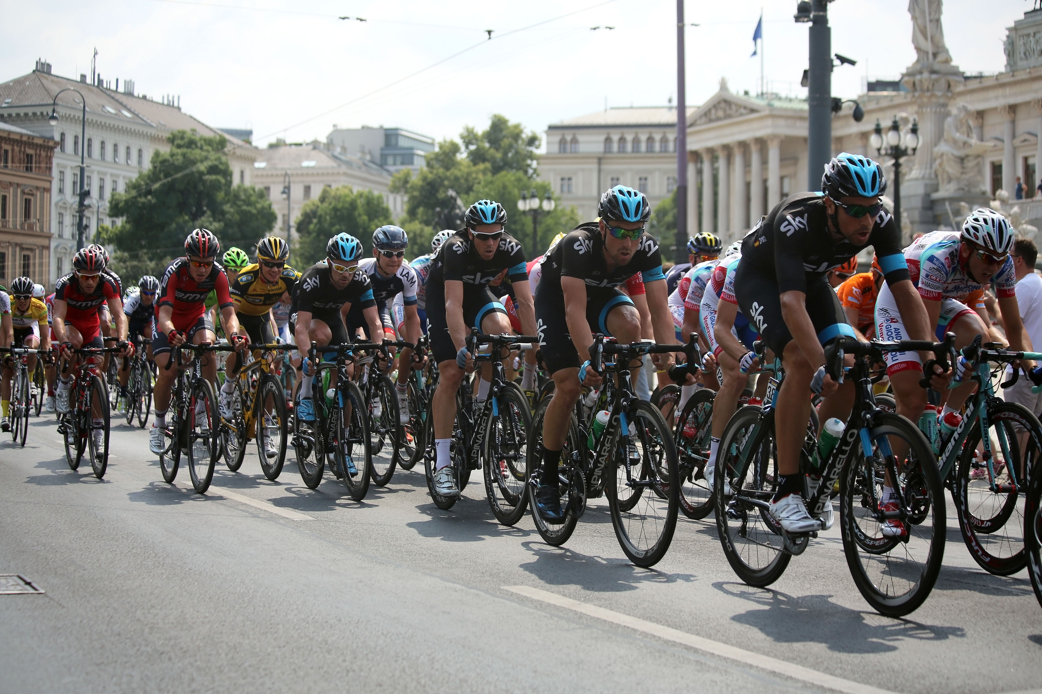 Finish of the final stage of the Tour of Austria in Vienna, Austria.